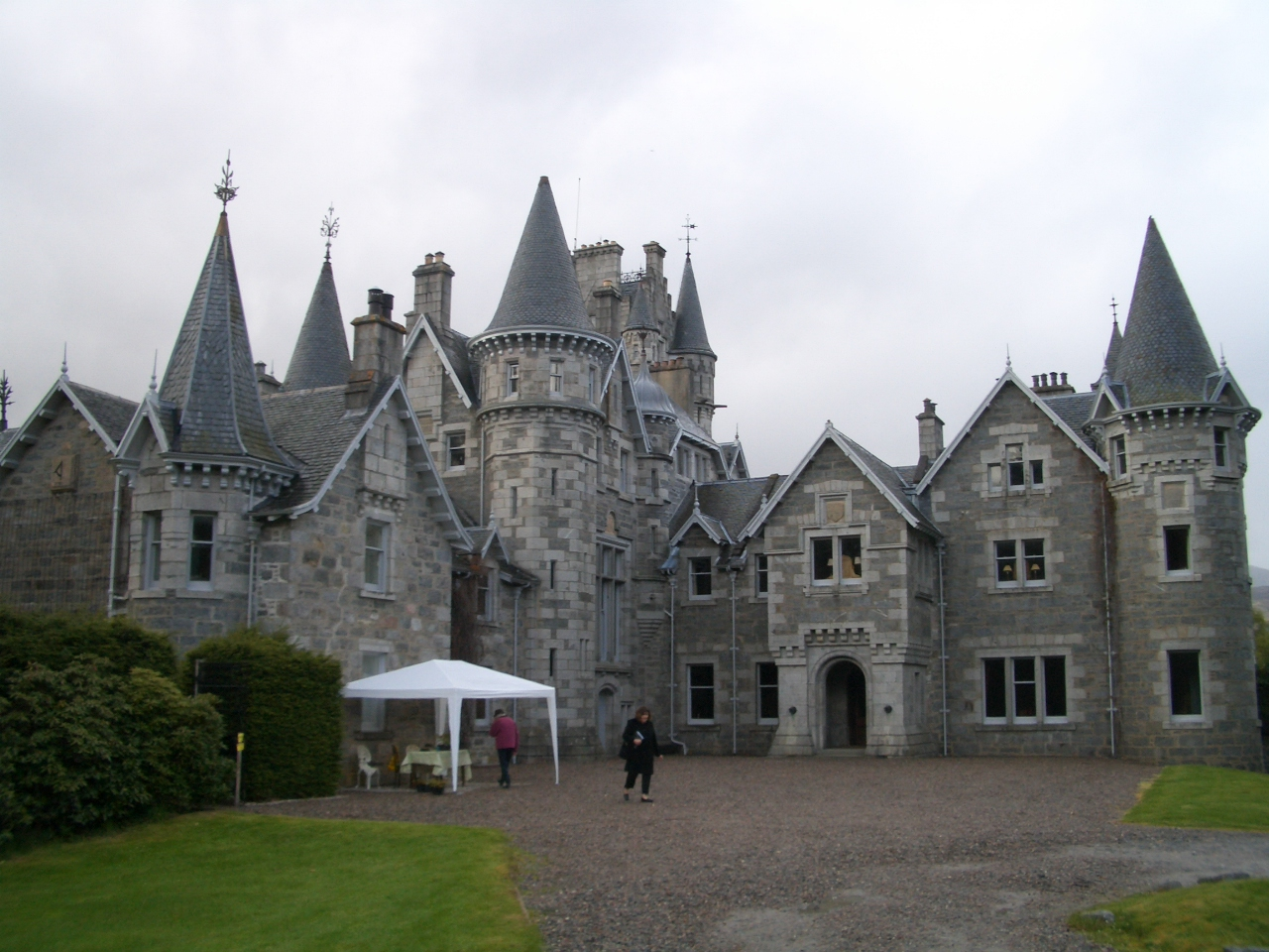 Ardverikie House, designed by John Rhind in 1870 and built in the Scottish baronial style, the setting for the BBC TV series Monarch of the Glen.